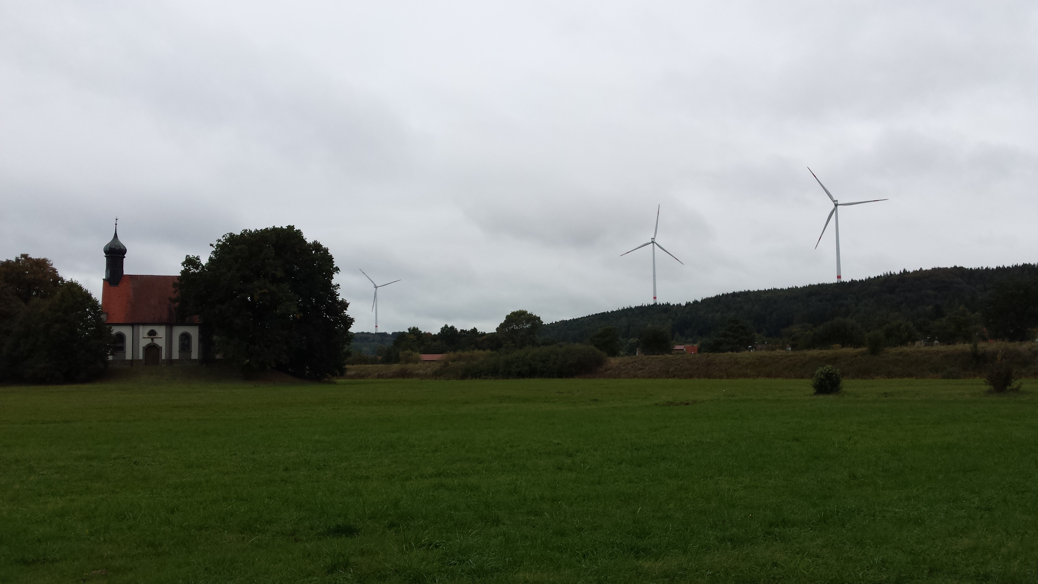 Holy Cross Chapel in Wilburgstetten, Bavaria, Germany